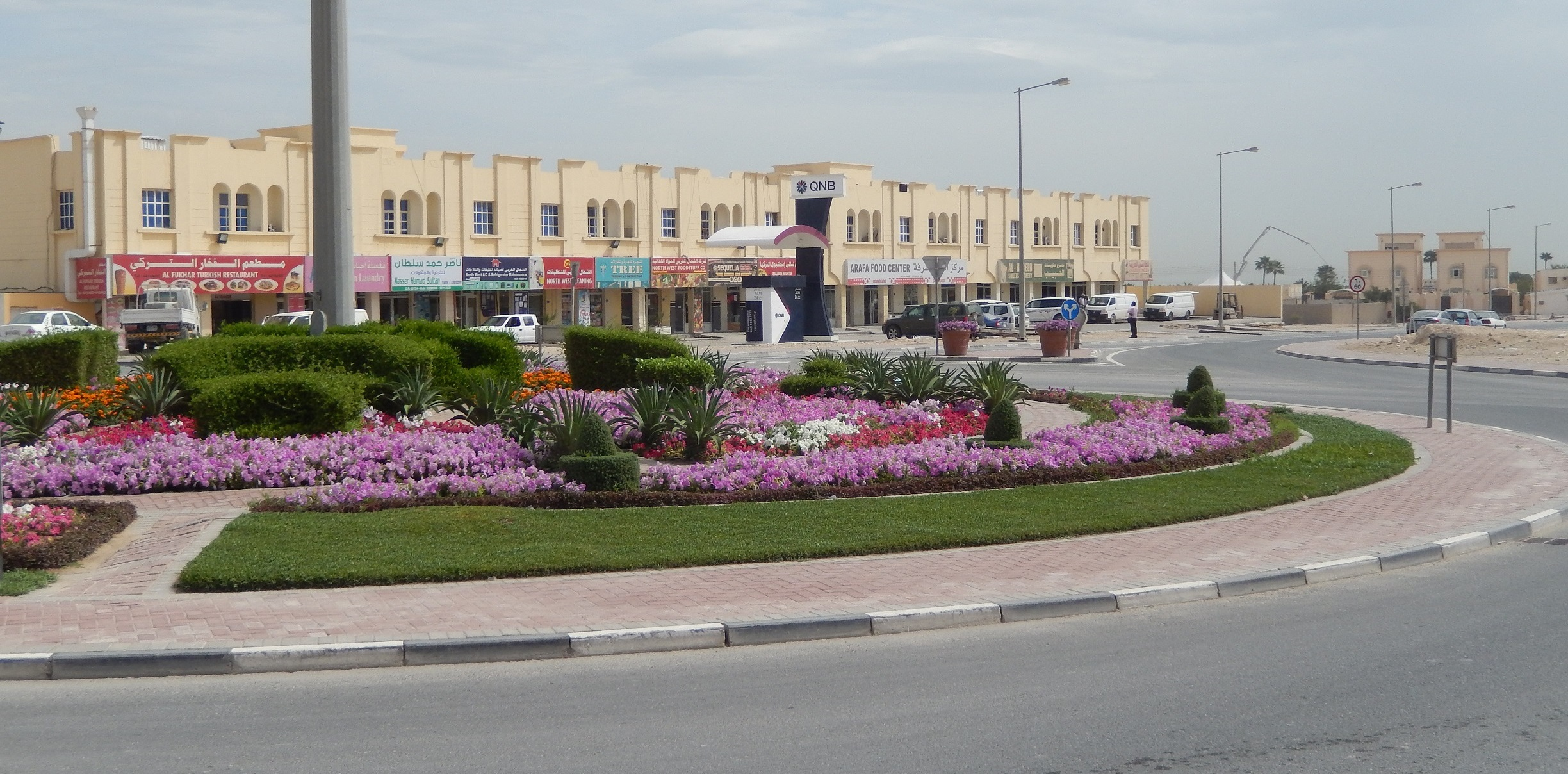 Roundabout with shops in the centre of Simaisma, a coastal town in the Al Daayen municipality, eastern Qatar.The town's name is also spelled as Smaisma, Sumaismah or Sumaysimah.